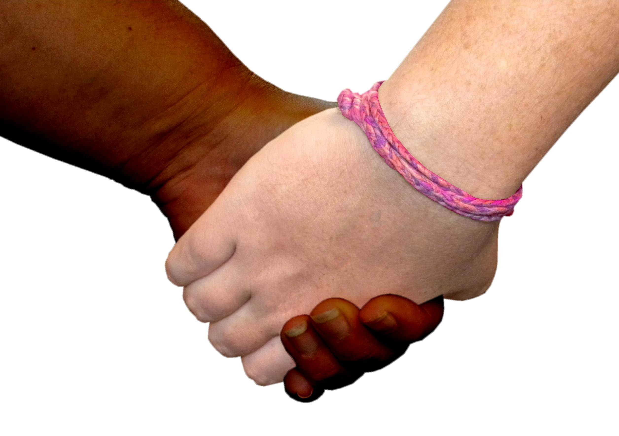 Two hands holding